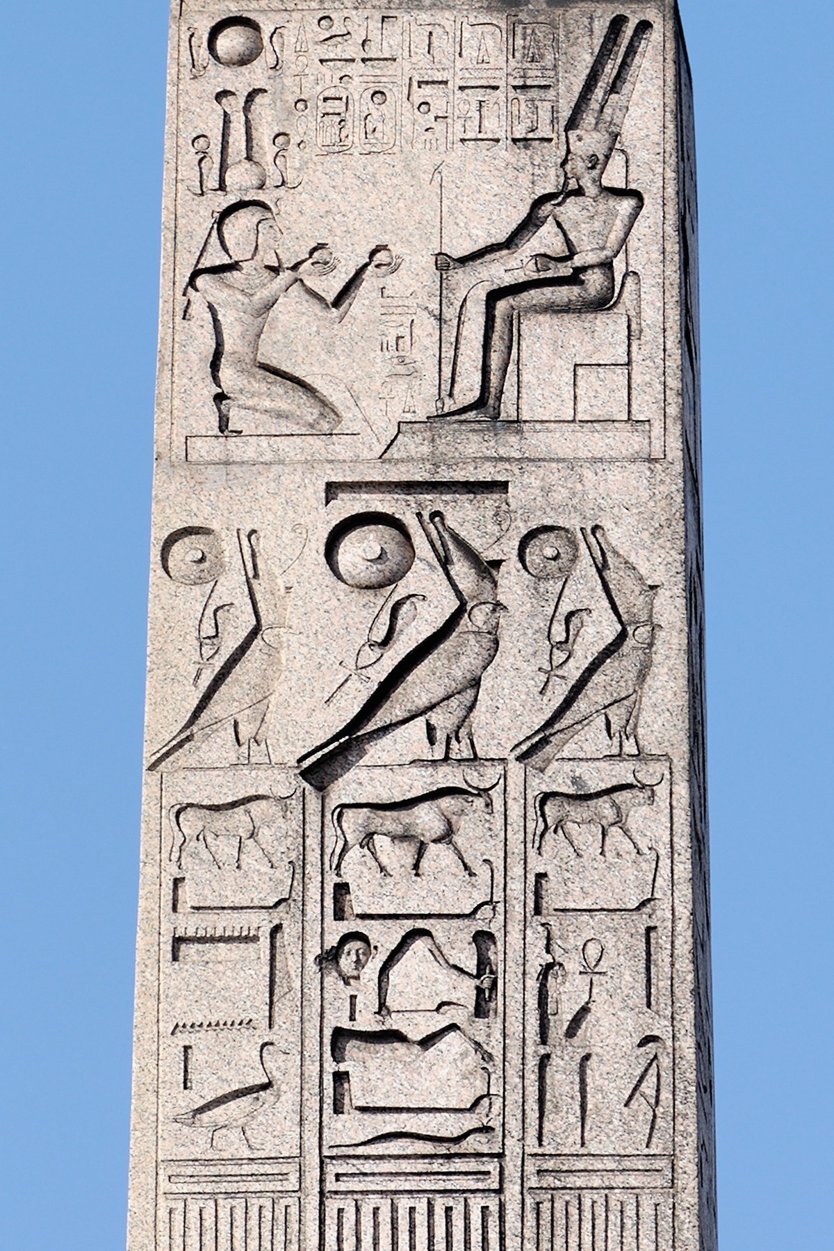 Upper part of the obelisk at the Place de la Concorde, 8th arrondissement of Paris. (See Luxor Obelisk)